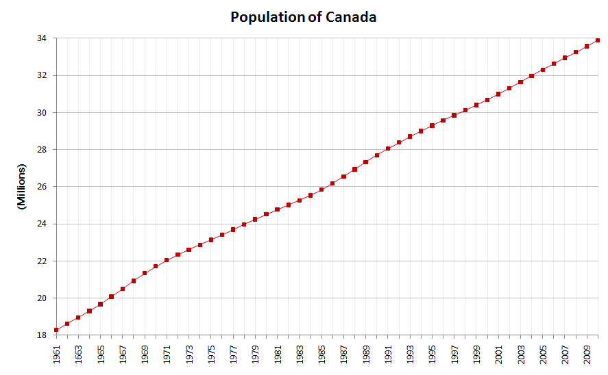 Canada's population (1961-2010).